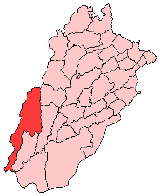 Map of Punjab with Dera Ghazi Khan District highlighted